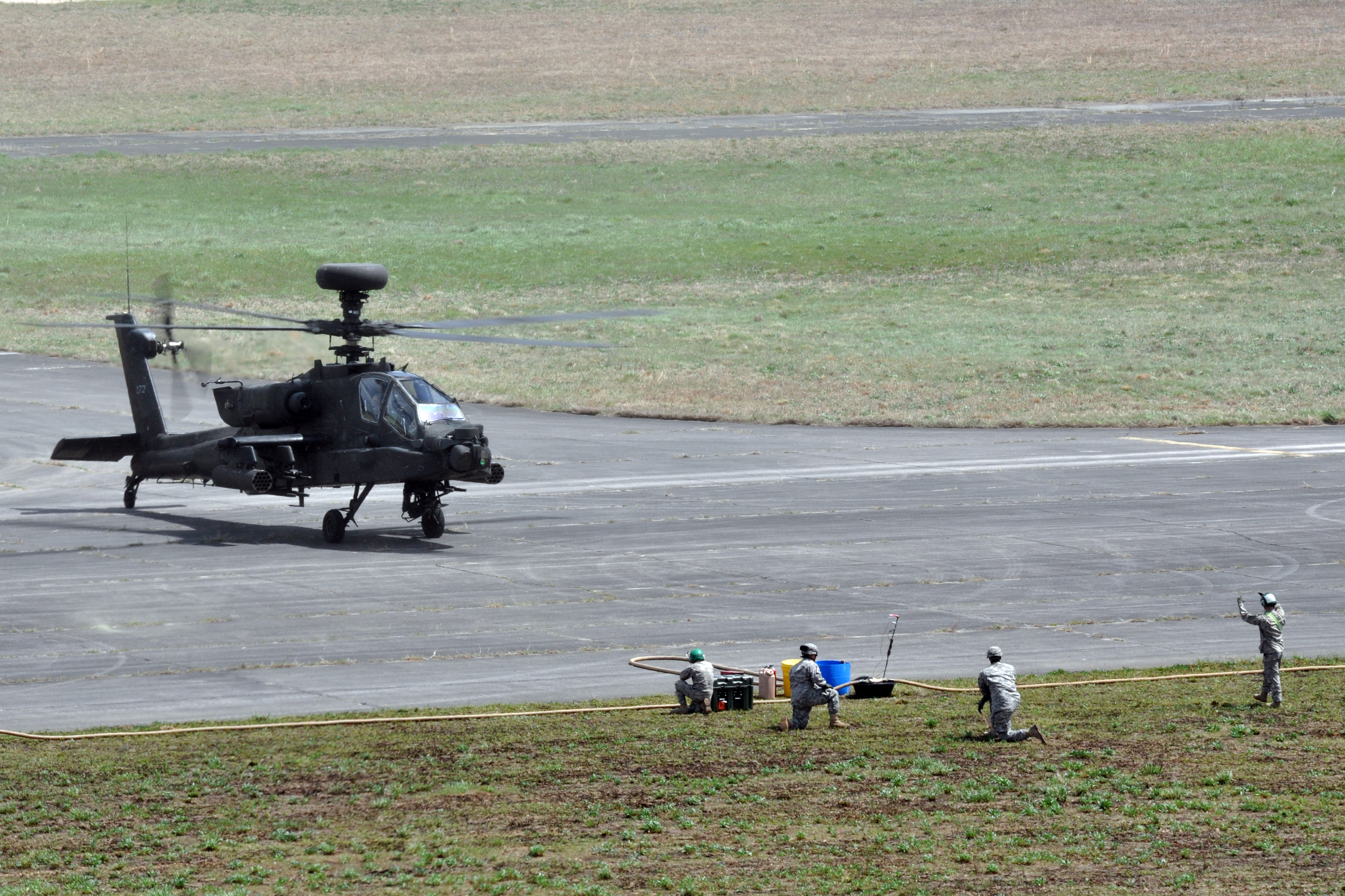 AH-64 Apache helicopters from the 1-151st Attack Reconnaissance Battalion, South Carolina Army National Guard, refuel after conducting a battalion size interdiction attack exercise over Poinsett Range, Sumter, S.C., April 5, 2014. During this exercise, the 1-151st ARB launched 18 Apaches to practice freedom of movement training, which is a vital attack aviation mission that provides aerial coverage for ground troops. (National Guard photo by Capt. Jamie Delk/RELEASED)